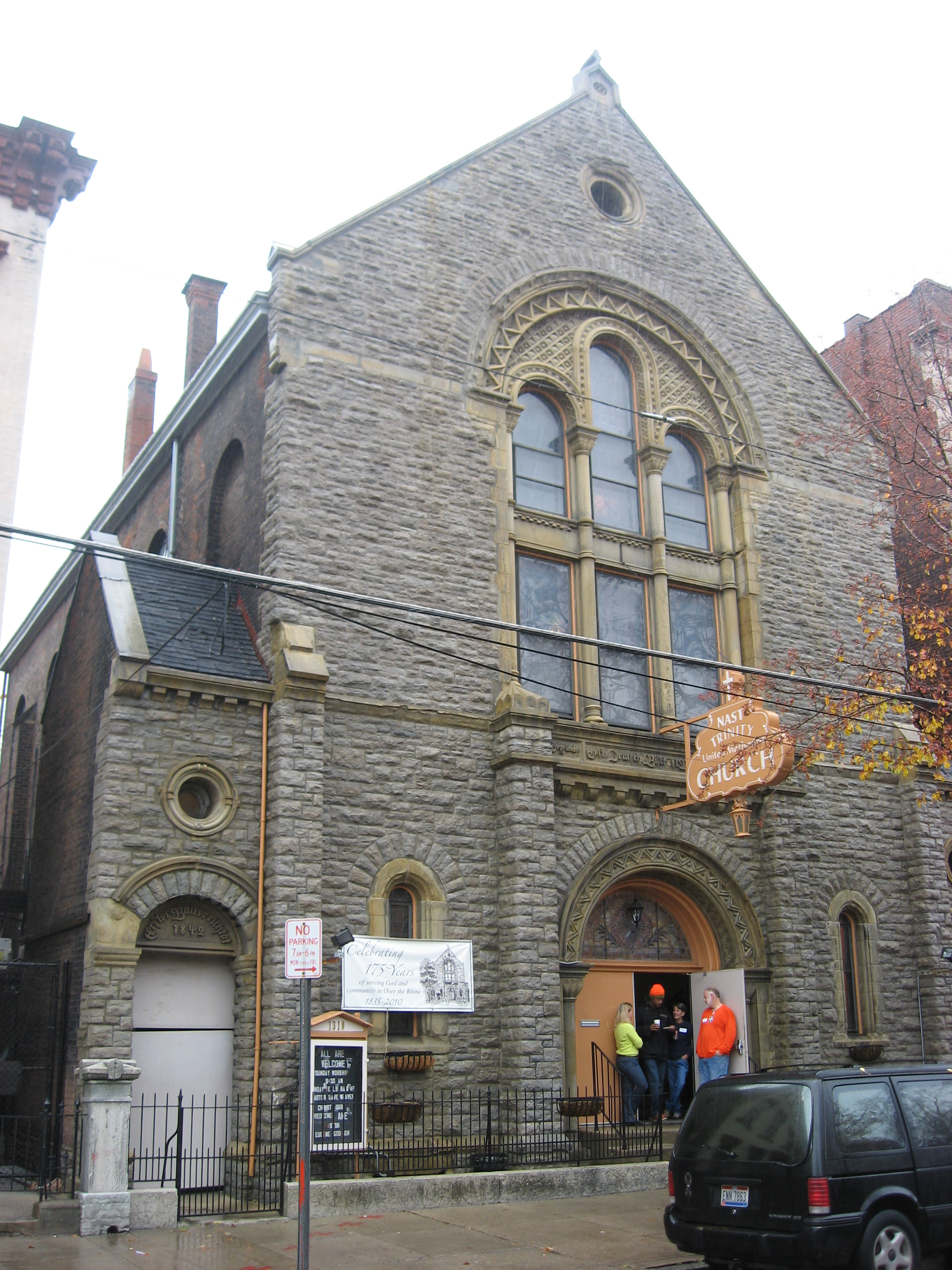 Front of the First German Methodist Episcopal Church (now Nast Trinity United Methodist Church), located at 1310 Race Street in the Over-the-Rhine neighborhood of Cincinnati, Ohio, United States. Built in 1881, it is listed on the National Register of Historic Places, and it is part of the Register-listed Over-the-Rhine Historic District.